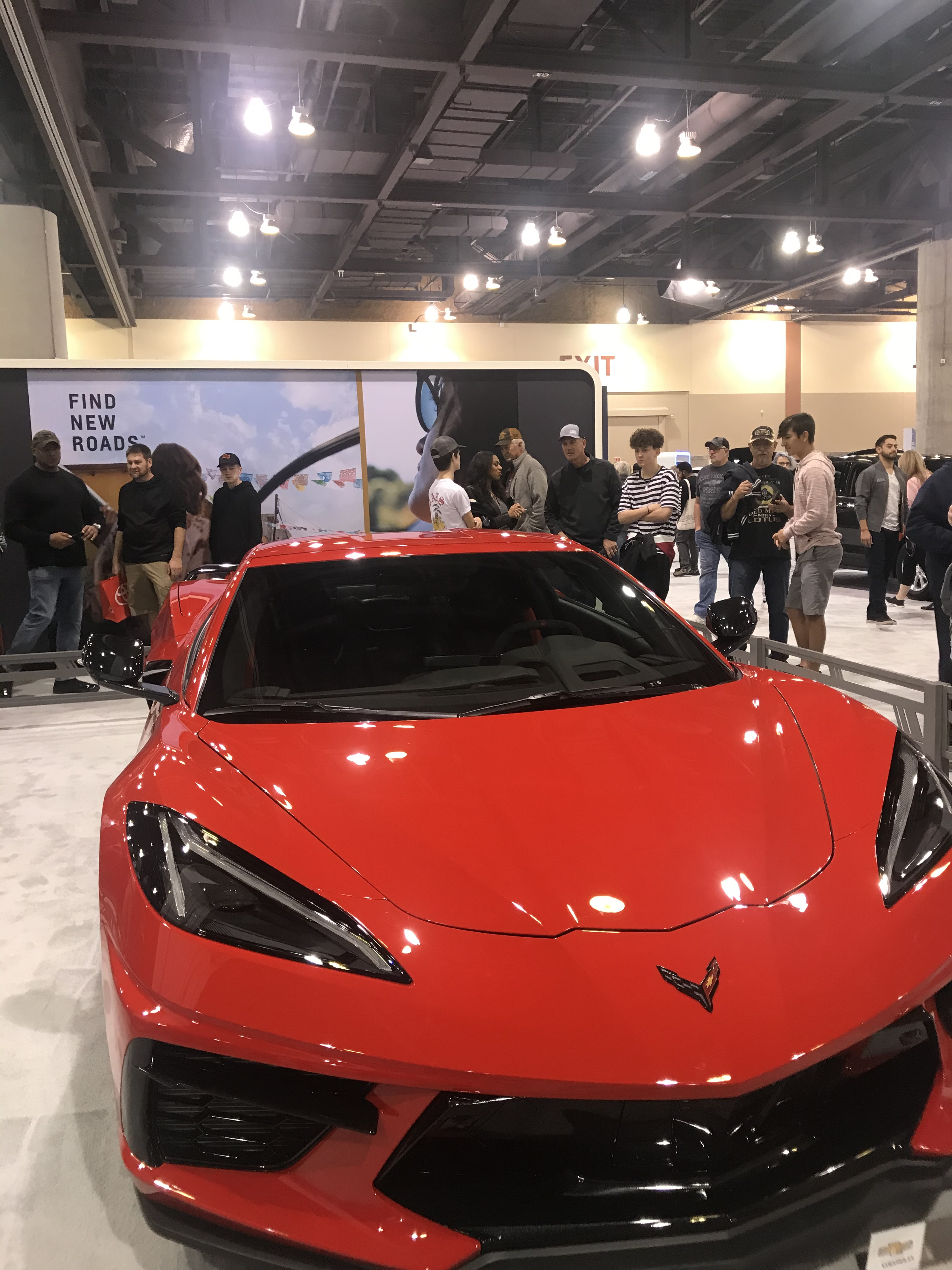 A 2020 Chevrolet Corvette C8 at the Phoenix Auto Show in Phoenix, Arizona